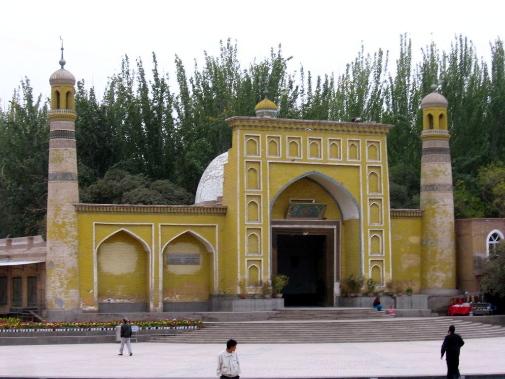 Kashgar (Kashi) is an oasis city in the Xinjiang Uygur Autonomous Region of the People's Republic of China. Id Kah mosque. Digital photo taken by author and post-processed with The GIMP.